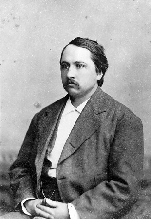 Author: Unknown. Public domain. Copyright expired. John P. Irish, Iowa and California orator, editor, activist, politician (1843–1923). He did not like to wear ties, and the photo shows this.